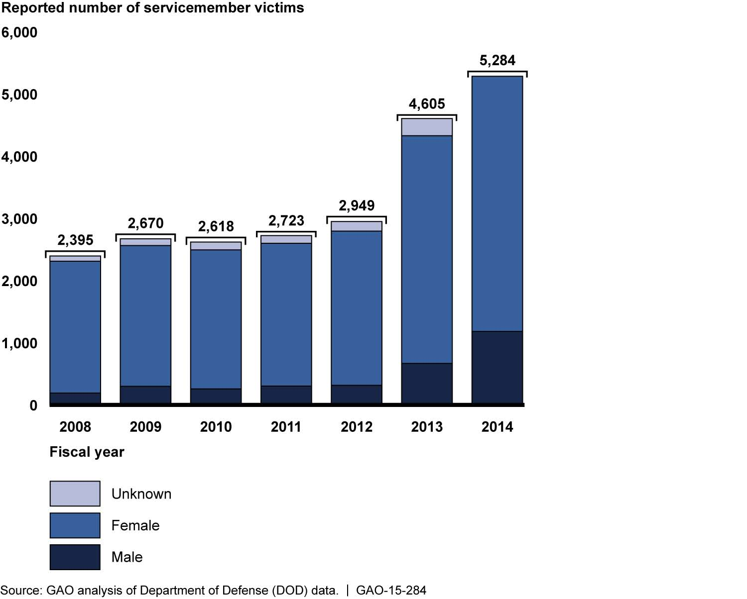 This image is excerpted from a U.S. GAO report: MILITARY PERSONNEL: Actions Needed to Address Sexual Assaults of Male Servicemembers Note: The figure includes both restricted and unrestricted reports of sexual assault. Because of the confidential nature of restricted reports, we are limited in our ability to assess the quality of these data. However, these data are the responsibility of Sexual Assault Response Coordinators, who manage and report on individual cases to their local installation commands, which reduces the likelihood of significant errors in the data. In addition, because for fiscal years 2008 through 2013 DOD's Sexual Assault Prevention and Response Office (SAPRO) did not collect information on the gender of victims converting reports from restricted to unrestricted, we calculated the minimum number of males and females that could have reported in each of these years and categorized the remainder as unknown.